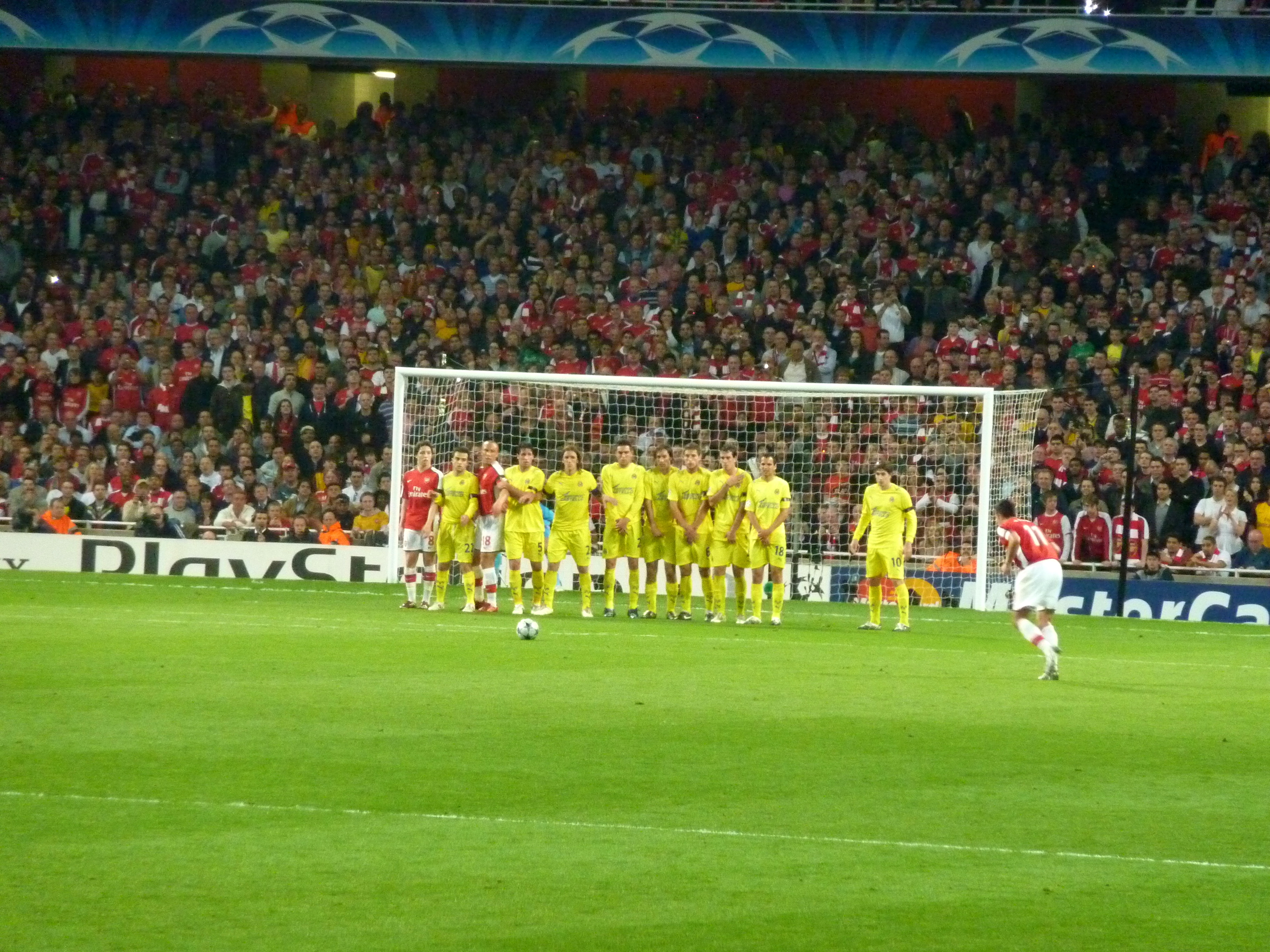 Van Persie Free Kick, on a Champions League Arsenal FC vs Villareal CF match